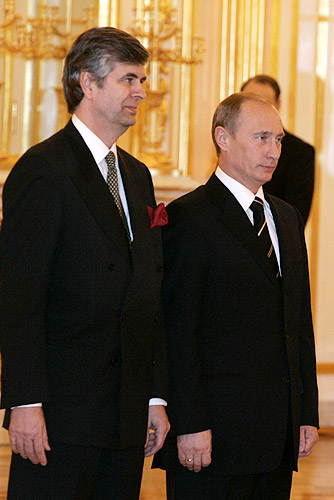 THE GRAND KREMLIN PALACE, MOSCOW. At the letters of credential presentation ceremony with Ambassador of France to Russia Stanislas de Laboulaye.